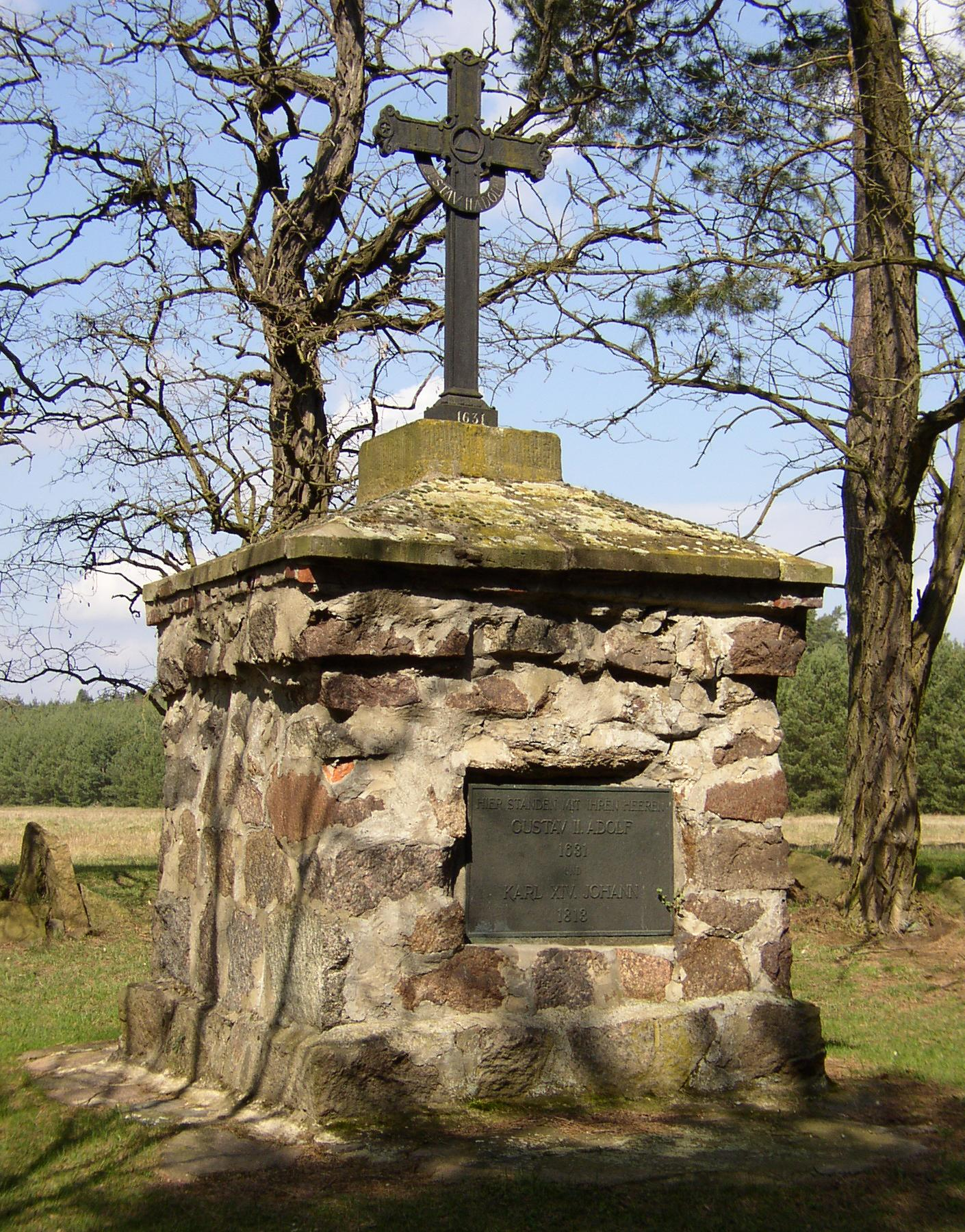 Memorial for Gustav II Adolf and Charles XIV John in Serno in Saxony-Anhalt, Germany